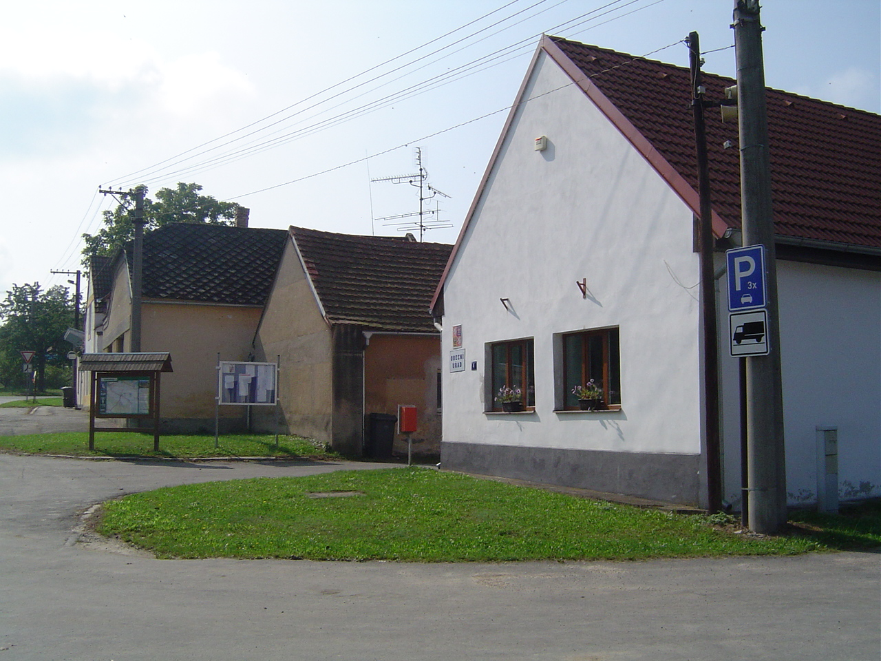 Town hall in Dunajovice, Czech Republic